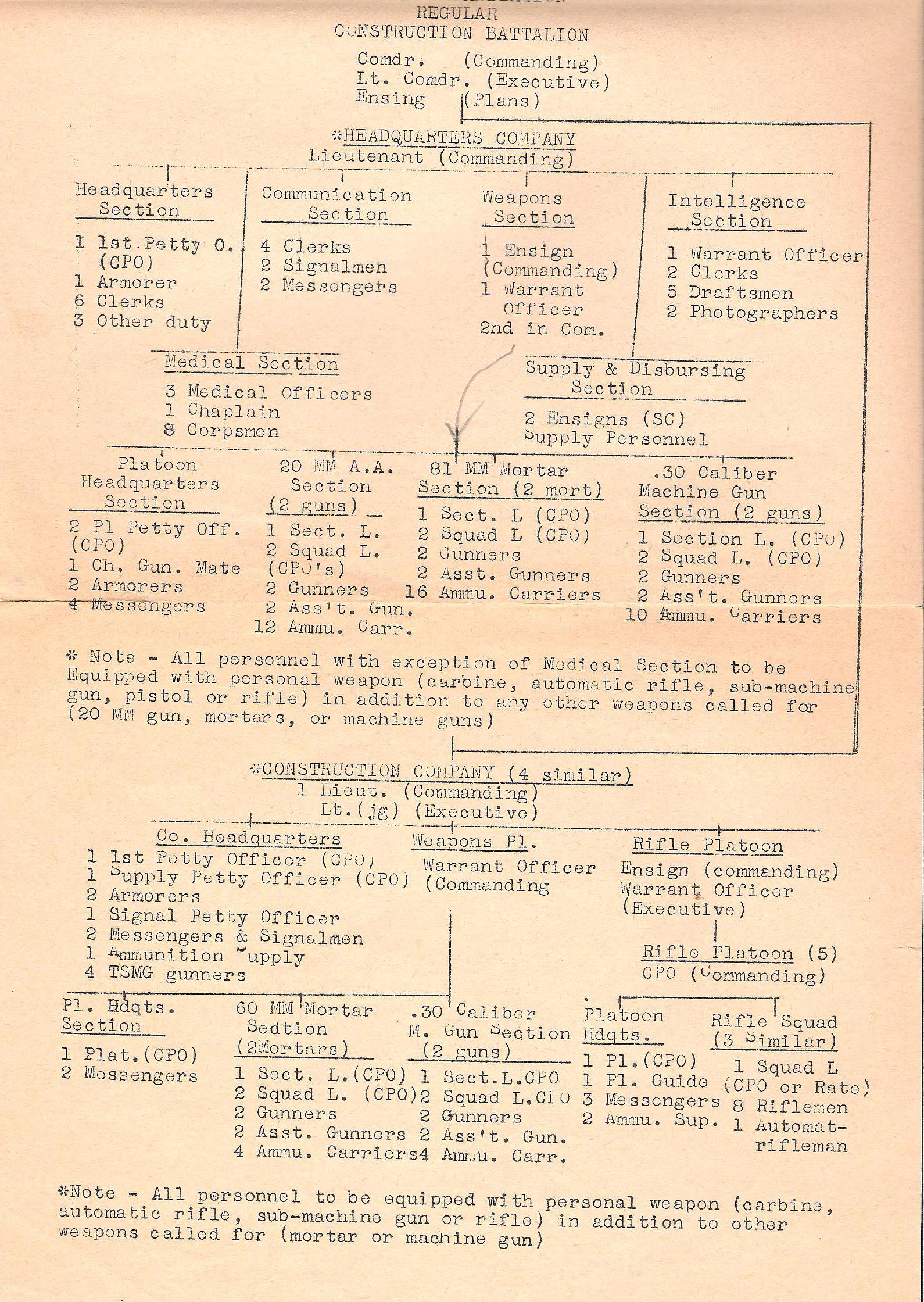 WWII Navy Construction Battalion Organization